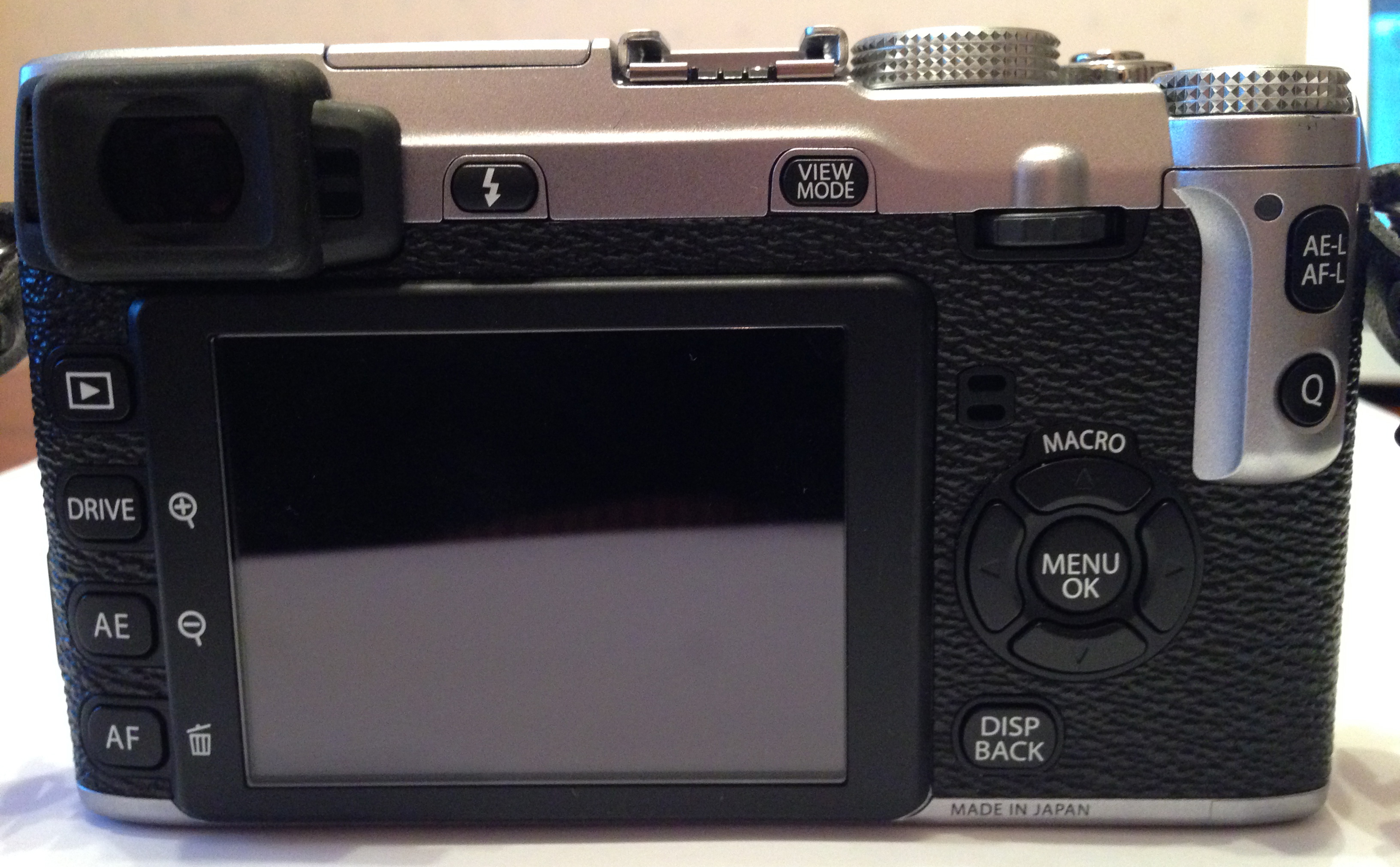 Fujifilm X-E1 camera back